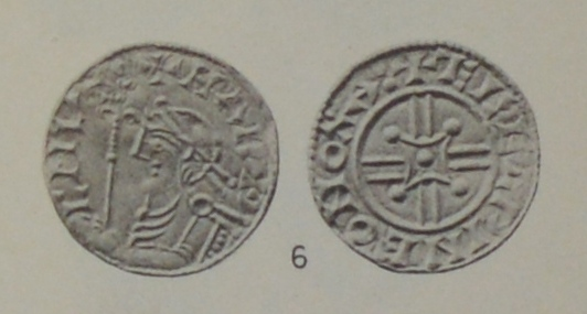 Coin of King Harthacnut